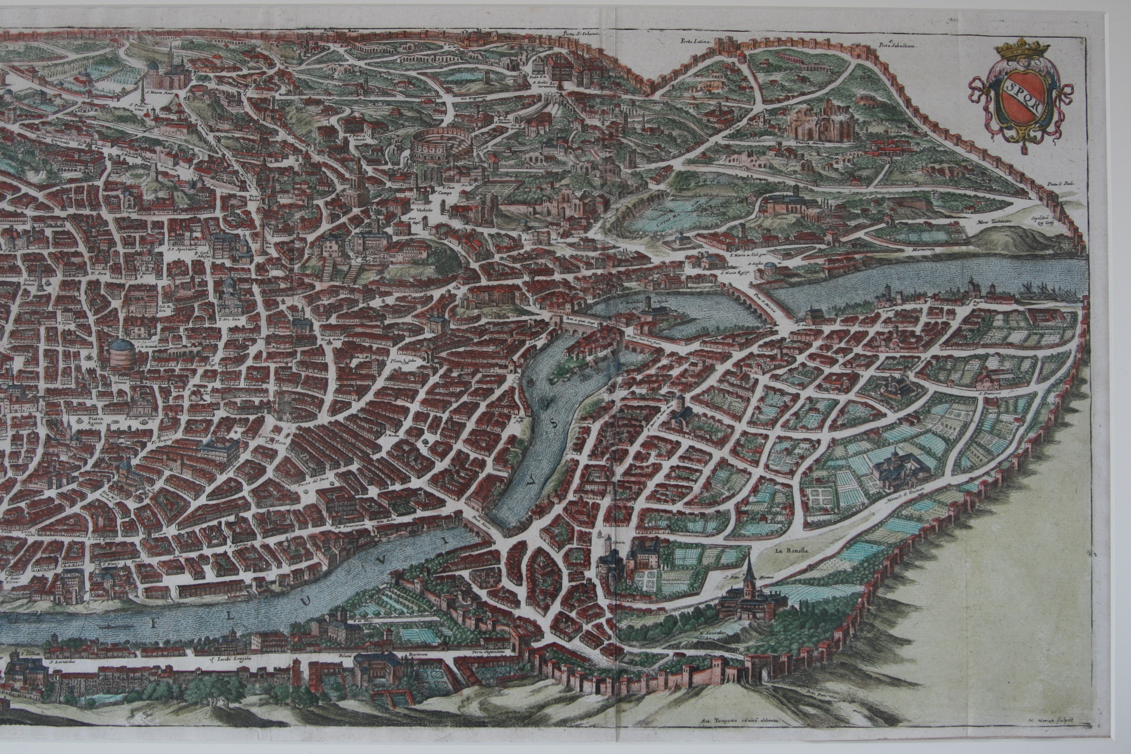 View of Rome, ca. 1640 (Matthaeus Merian, Topographia Italiae, das ist: warhaffte und curioese Beschreibung von ganz Italien...)